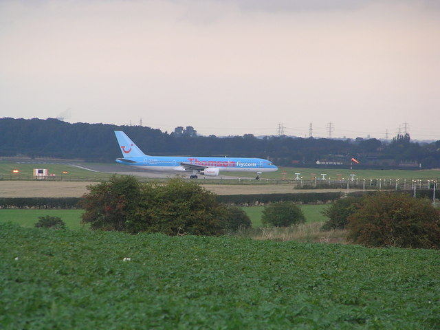 Humberside International Airport